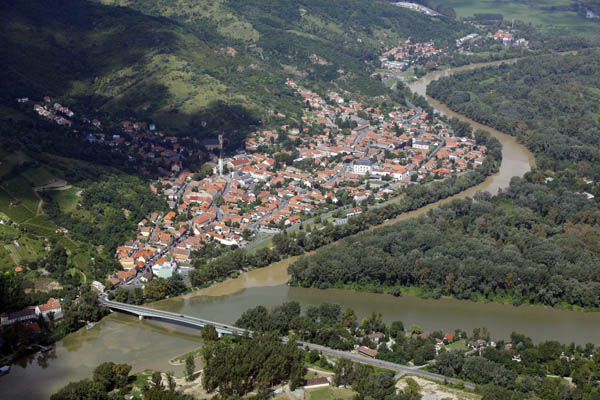 Tokaj, Hungary, aerial photography